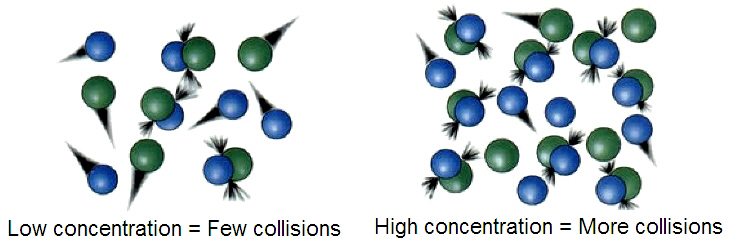 Illustration of the dependence of molecular collisions frequency with concentration